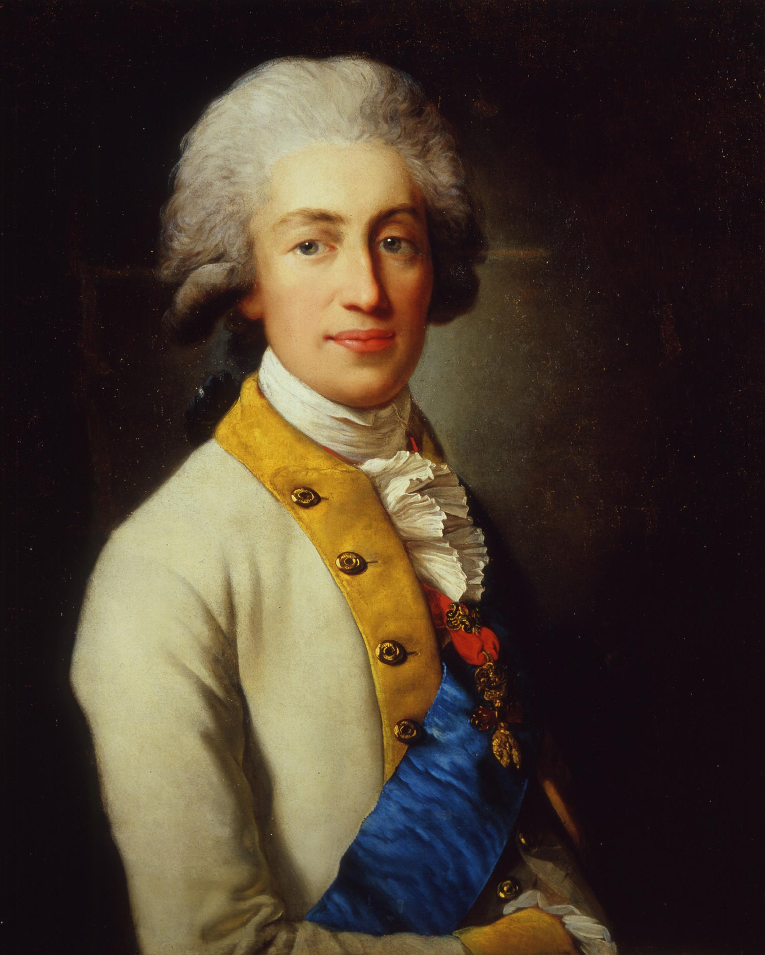 Crown prince Maximilian of Saxony (1759-1838)